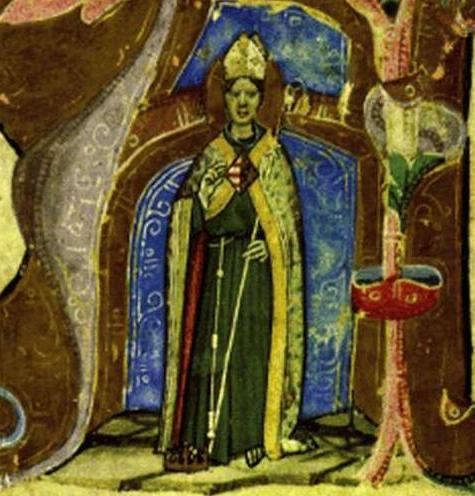 Saint Louis of Toulouse (1274 - 1297) with the Hungarian Anjou coat of arms from the Hungarian Iluminated Chronicles